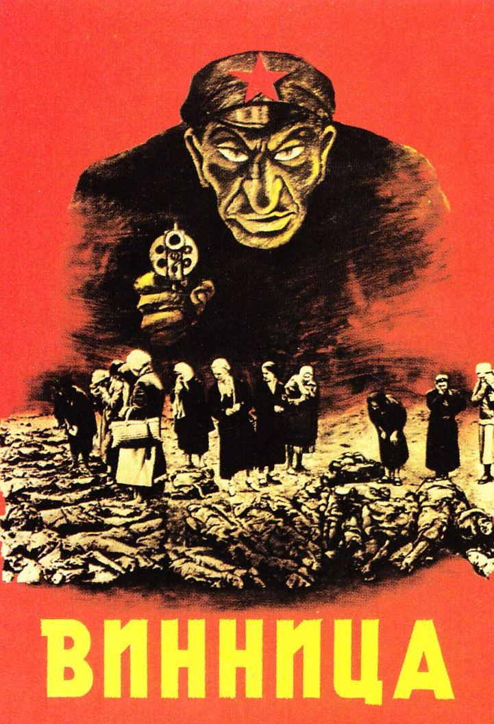 German anti-Soviet, anti-Jewish propaganda poster issued in the contested regions of Poland and Ukraine in 1943